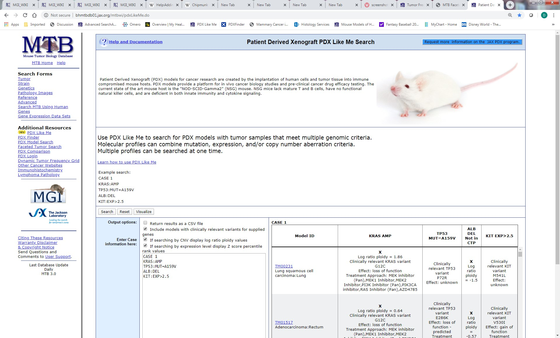 This image shows an example search using the PDX Like Me search tool on the Mouse Models of Human Cancer database.